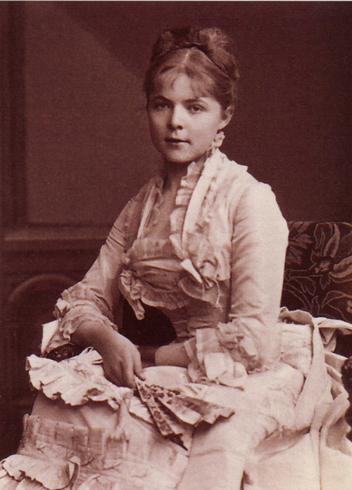 Marie Bashkirtseff